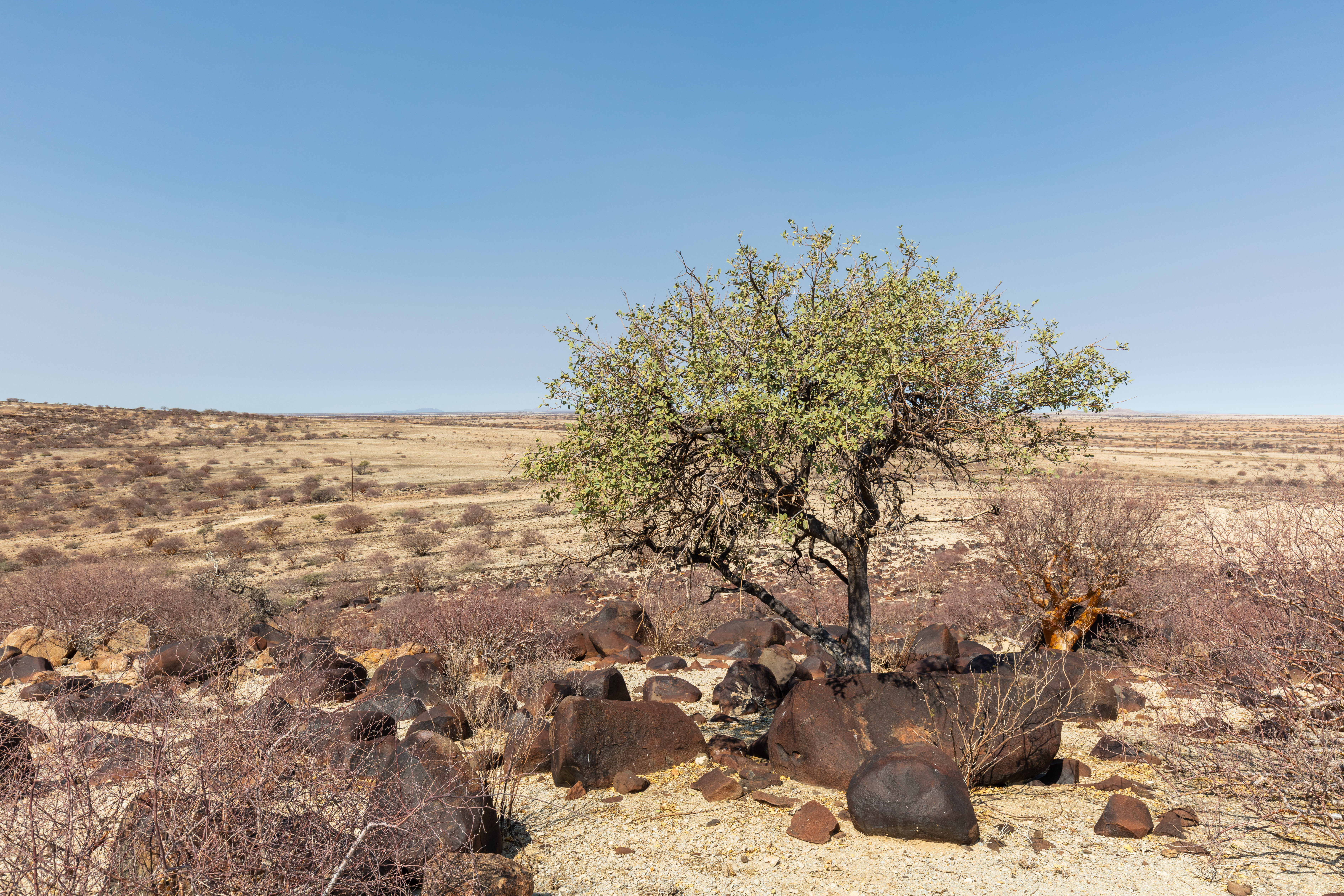 Tylecodon paniculatus, Spitzkoppe, Namibia